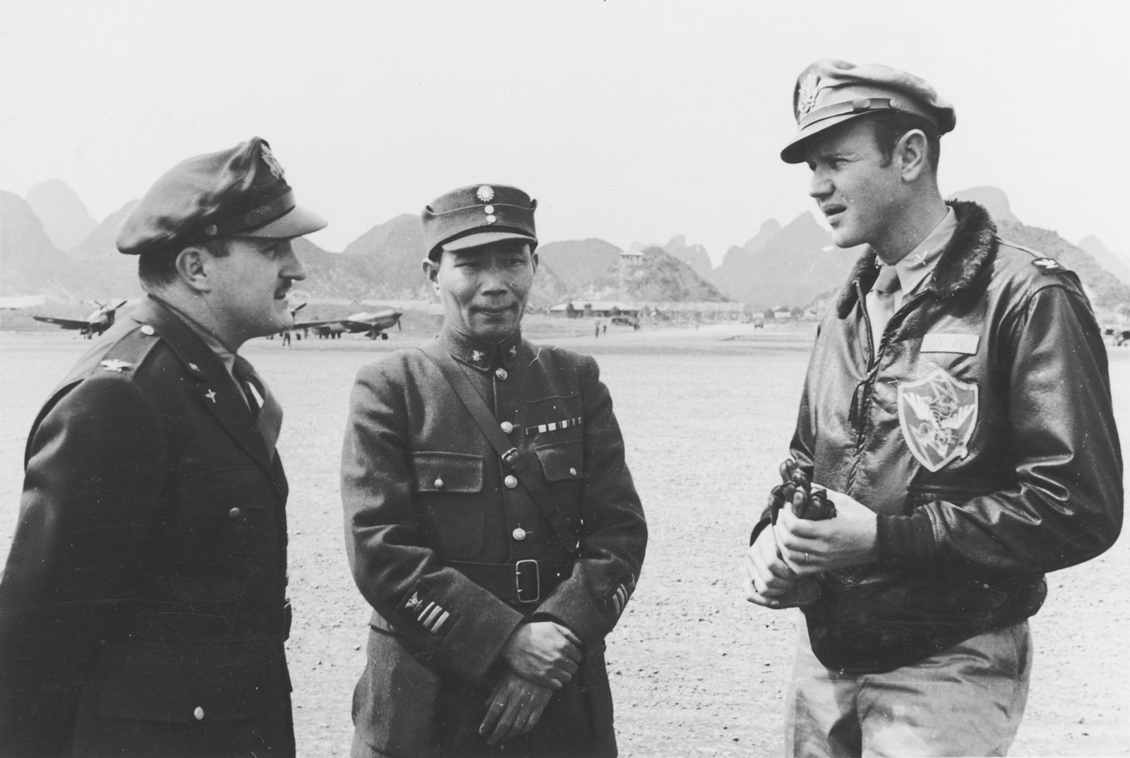 Catalog #: 00714 Subject: The Flying Tigers - China Title: Col David Tex Hill Repository: San Diego Air and Space Museum Archive